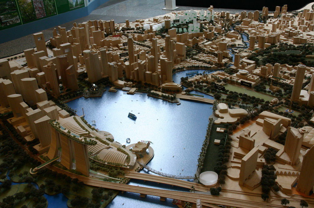 Model of Central Singapore at URA (Urban Redevelopment Authority) Gallery